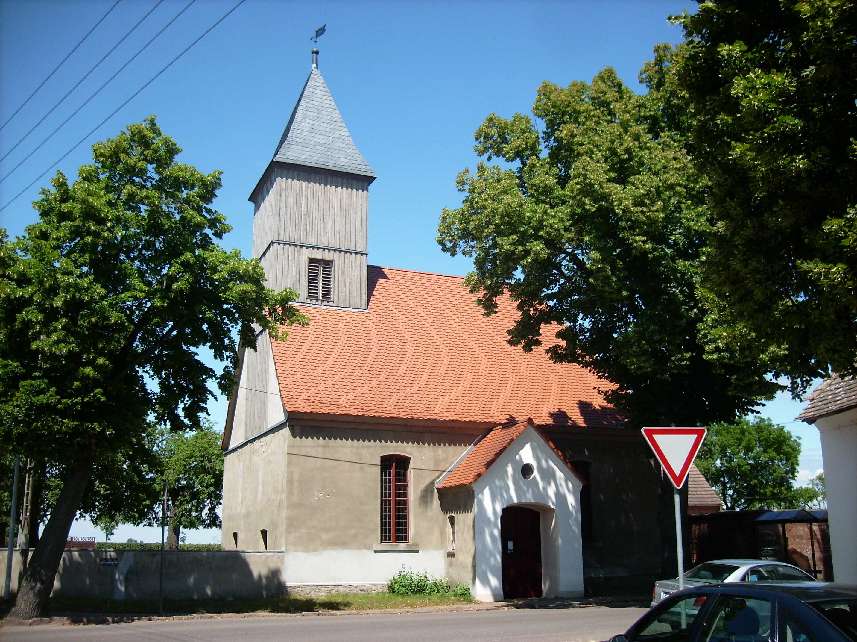 Zehbitz church (Südliches Anhalt, Anhalt-Bitterfeld district, Saxony-Anhalt)